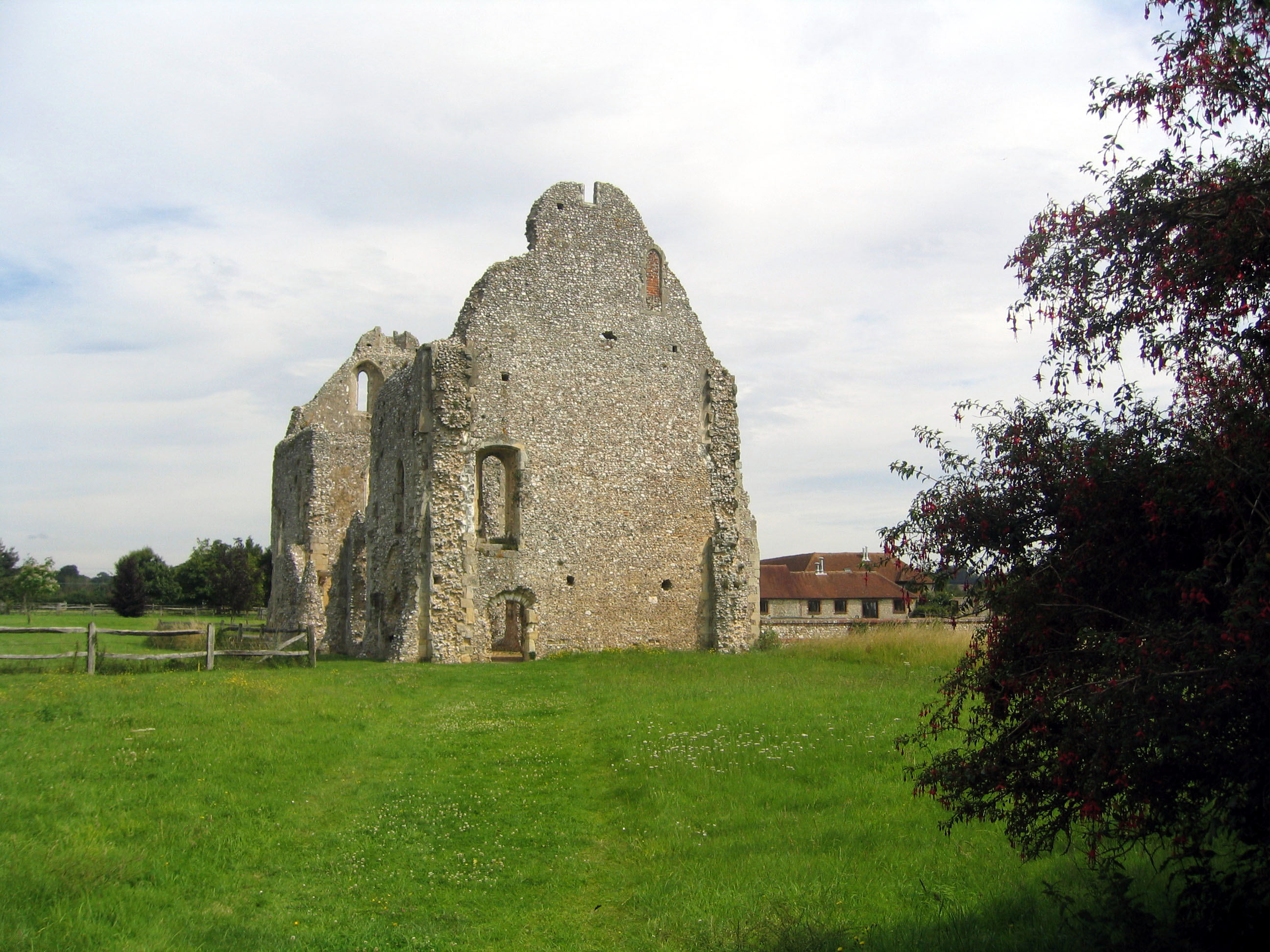 Photograph